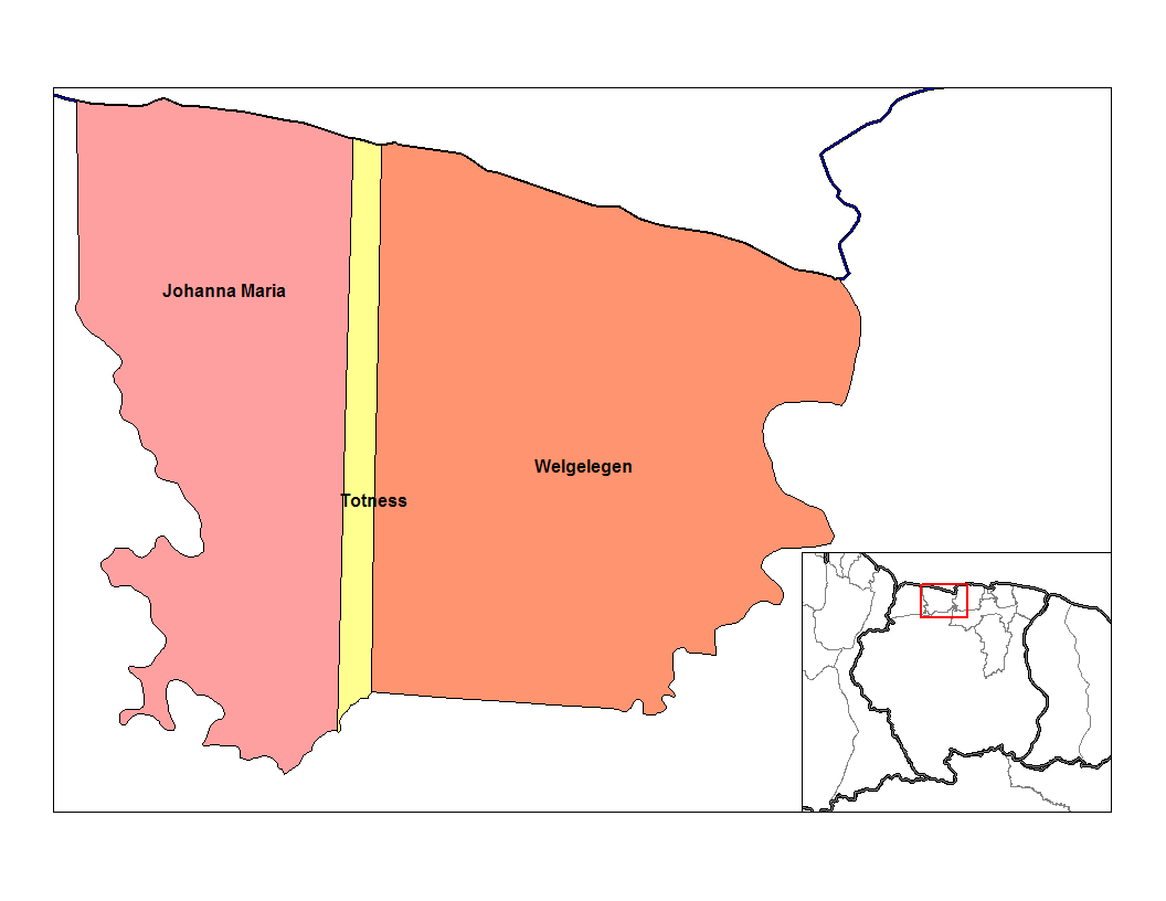 Map of the resorts of the Coronie district in Suriname. Created by Rarelibra 22:48, 27 December 2006 (UTC) for public domain use, using MapInfo Professional v8.5 and various mapping resources. Rarelibra 22:48, 27 December 2006 (UTC)